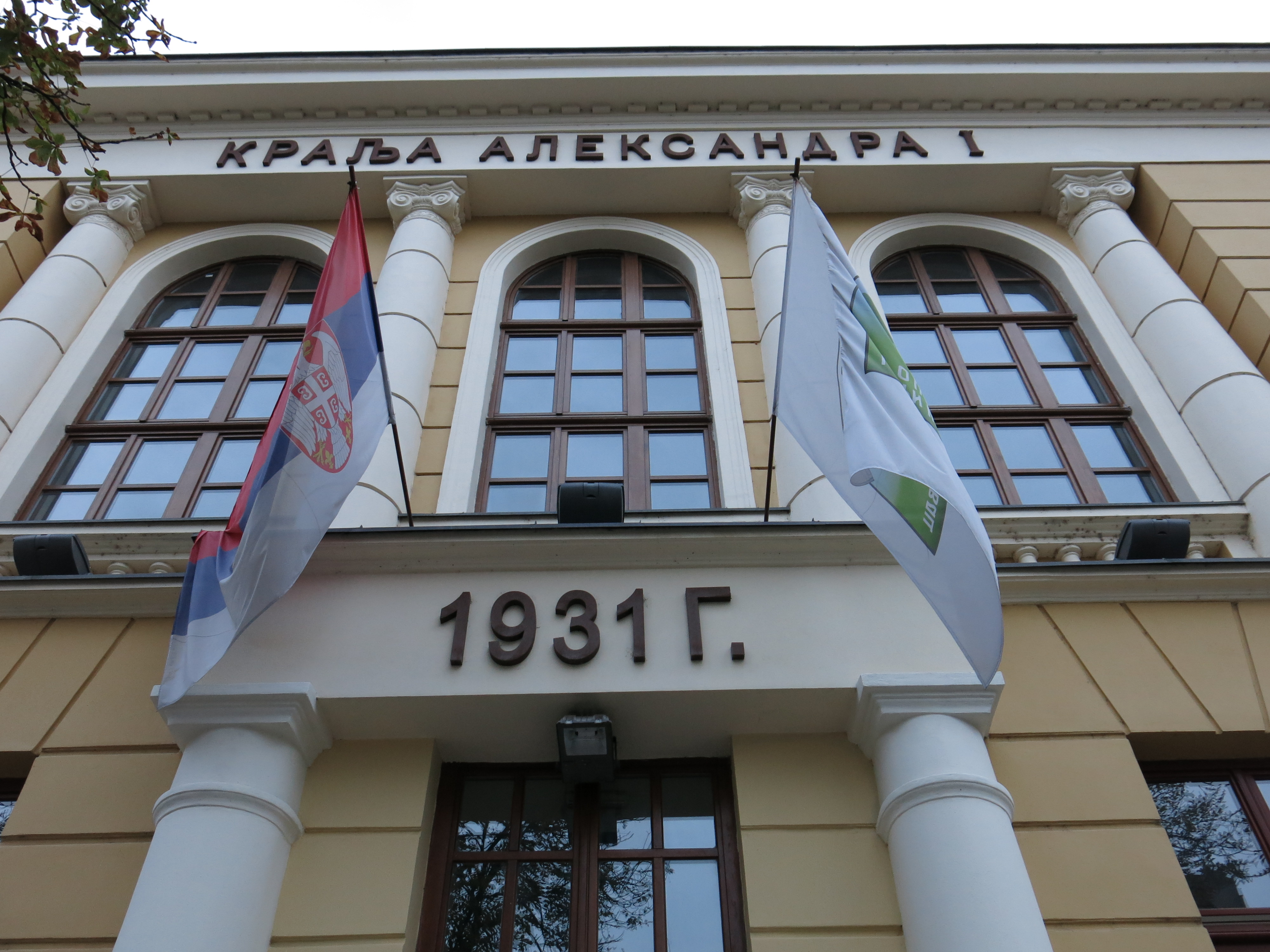 Gornji Milanovac, Elementary School Kralj Aleksandar I